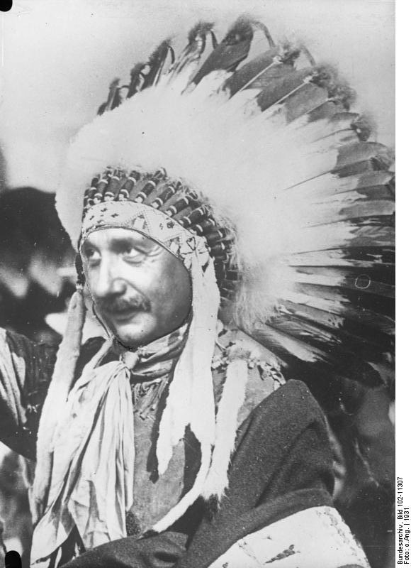 Prof. Einstein zum Indianer-Häuptling ernannt ! Diese Foto-Montage zeigt den berühmten Prof. Einstein, wie er als Indianer-Häuptling der Hopi-Indianer im grossen Schmuck aussehen wird. [Translation (added by commons.wikimedia): Prof. Einstein appointed Indian chief! This photomontage shows the famous Prof. Einstein, how he will look as a chief of the Hopi Indians in full ornate.]